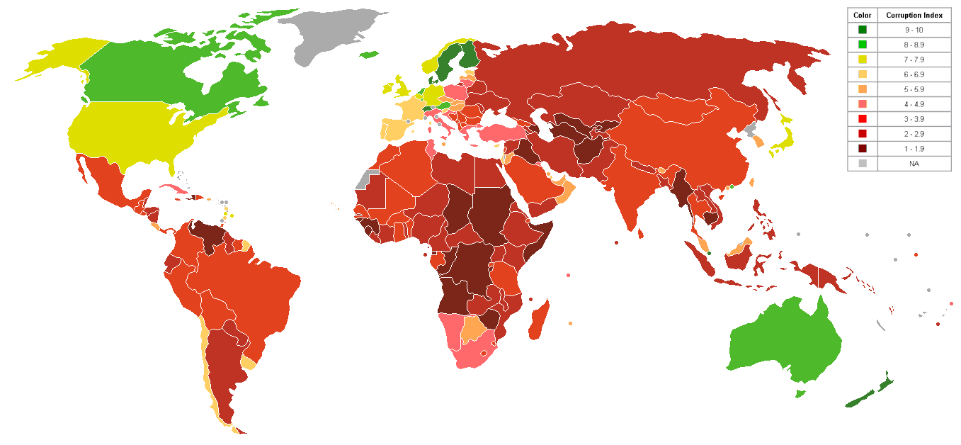 Übersicht des Korruptionswahrnehmungsindexes, nach Ländern (Stand: 2007) Overview of the Corruption Perceptions Index (last update: 2007) Carte du monde de l'indice de perceptions de la_corruption (année 2007)